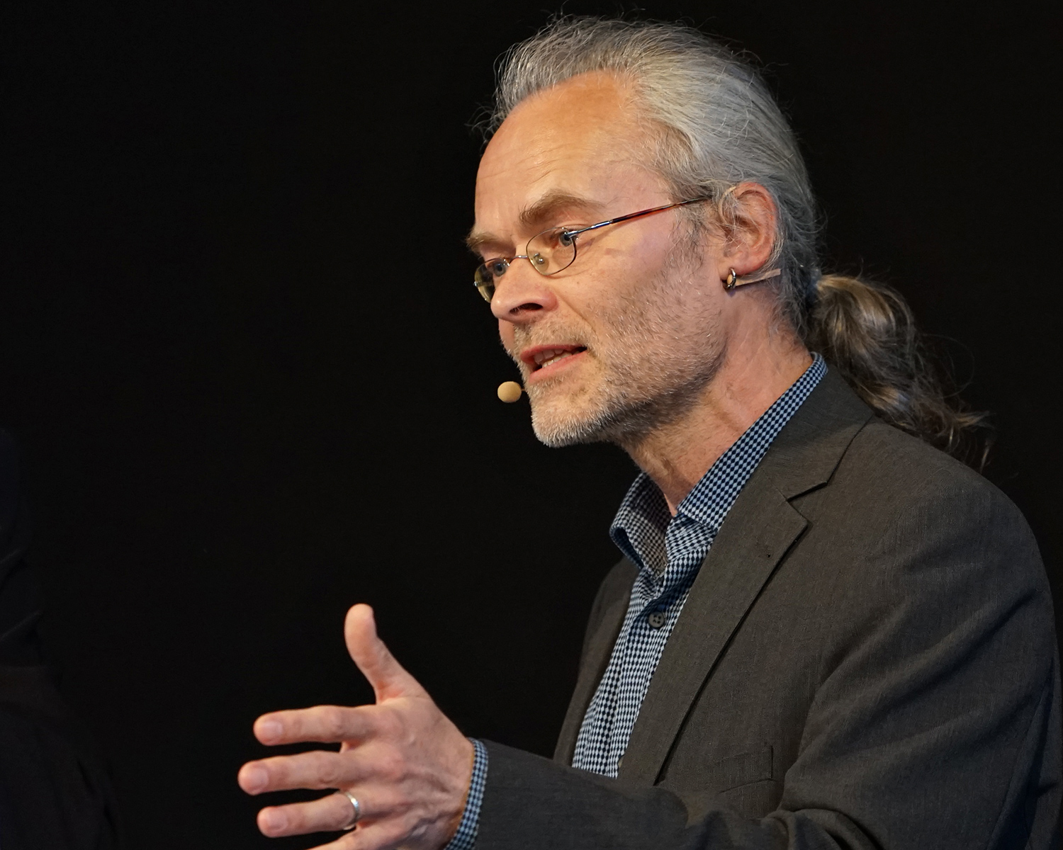 Peter Tudvad - Danish philosopher and writer - at the historic event "Historiske Dage 2019", Copenhagen, Denmark